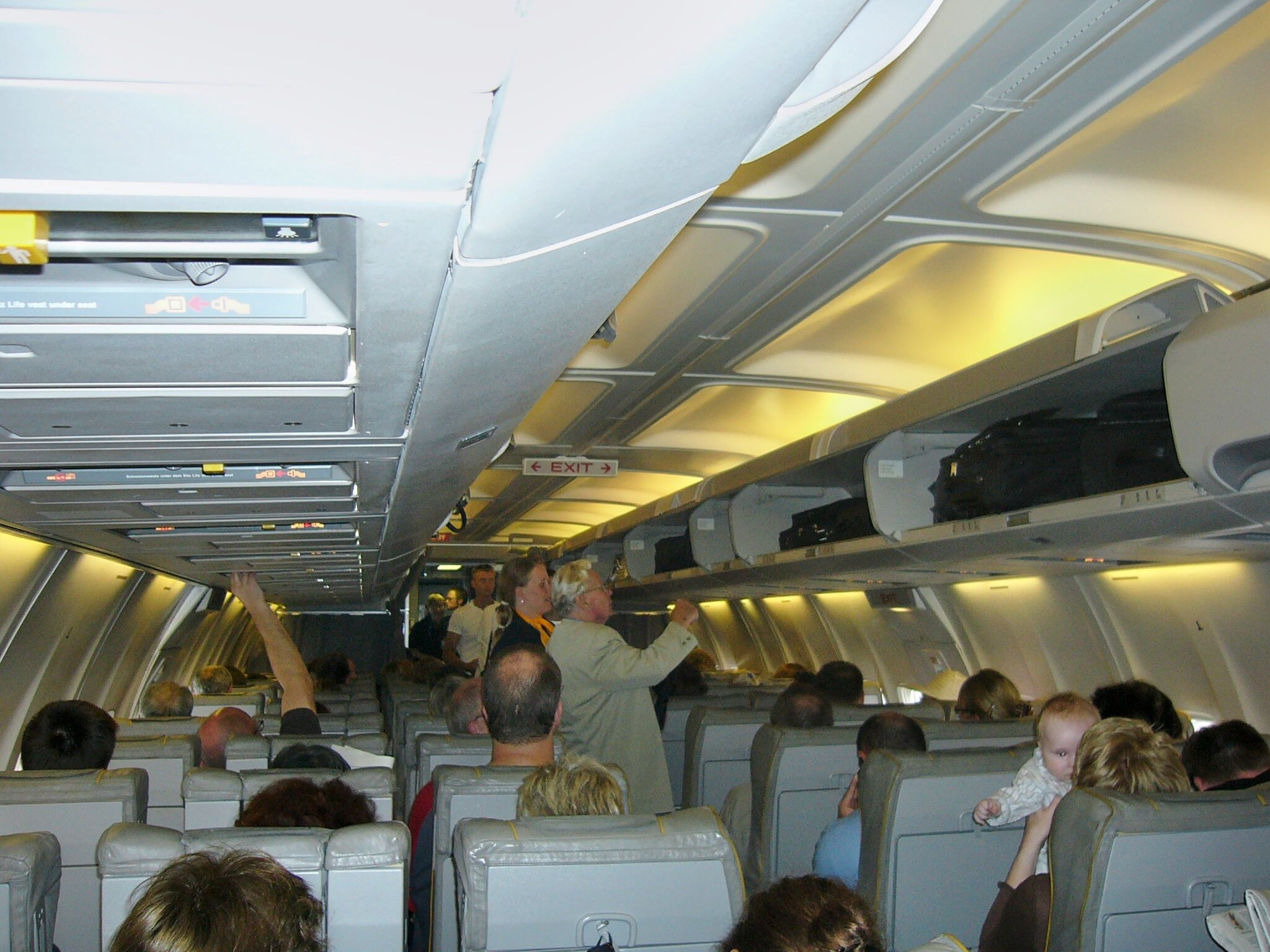 Cabin of a Boeing 737-500 (economy class) during boarding.